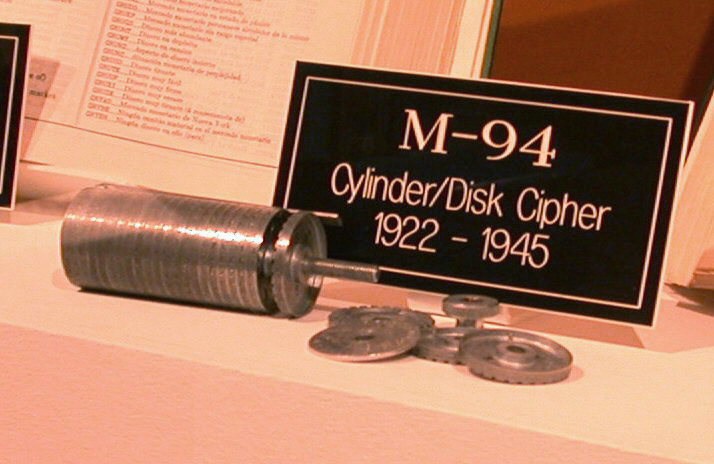 M-94 cipher cylinder, NSA Museum / Fort Meade, Maryland / 2004